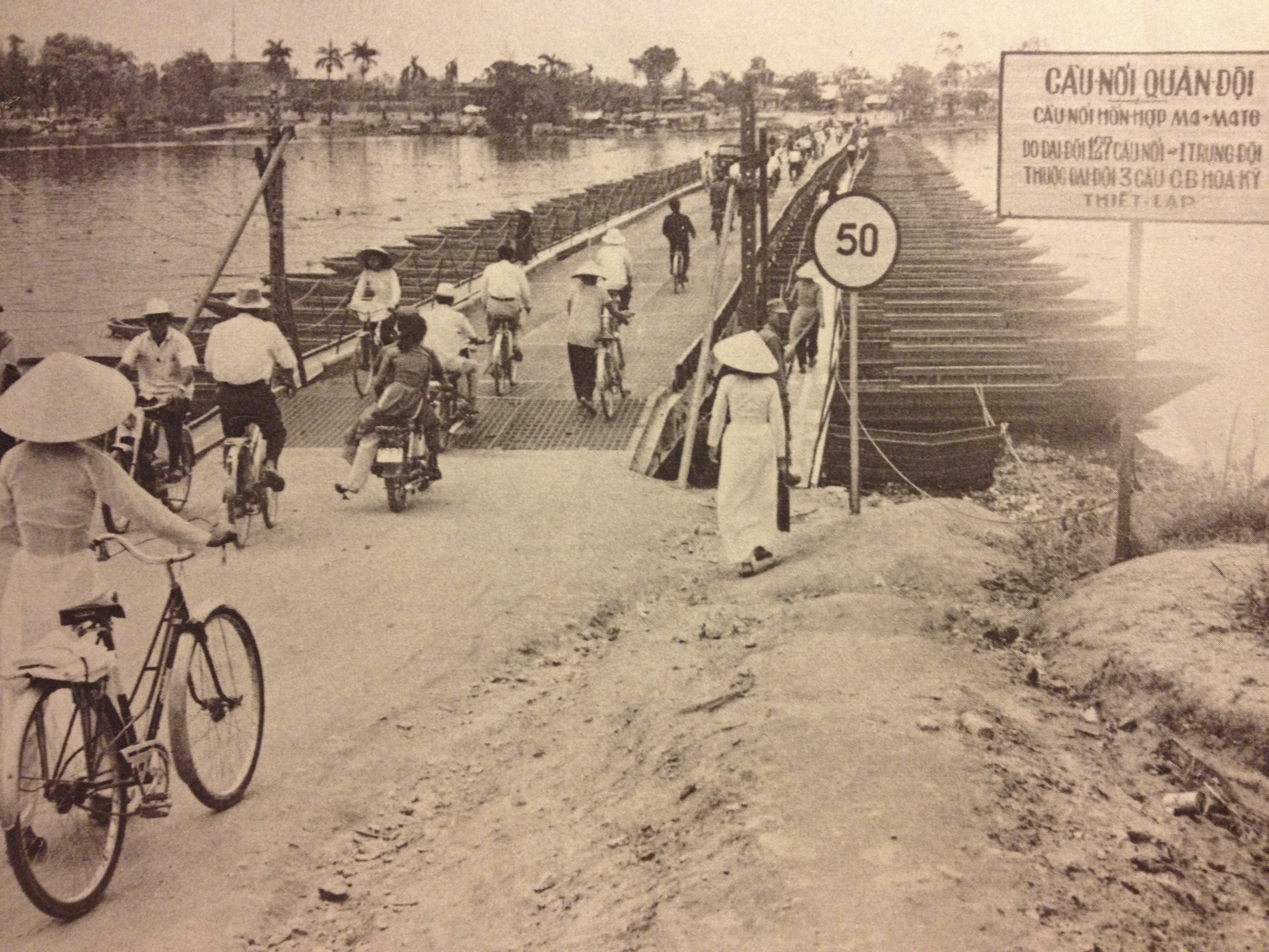 Pontoon bridge over the Perfume River in Hué, 1968 pending the reconstruction of the Trường-tiền Bridge, blown-up by the invading communists during the Tet 1968 Offensive